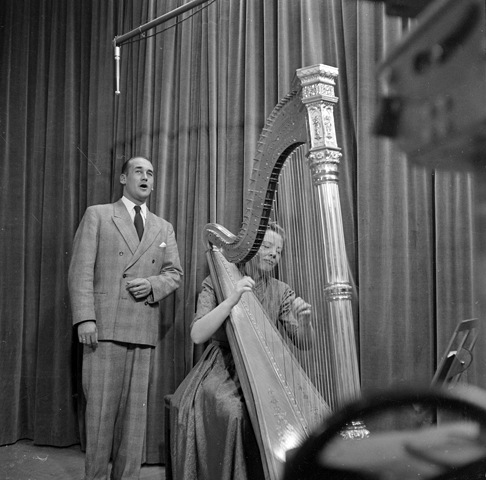 Vocalist Kees Deenik and harpist Phia Berghout in 1951.